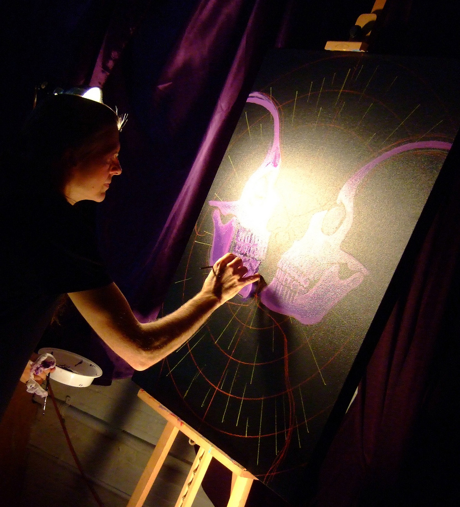 Alex Grey Painting